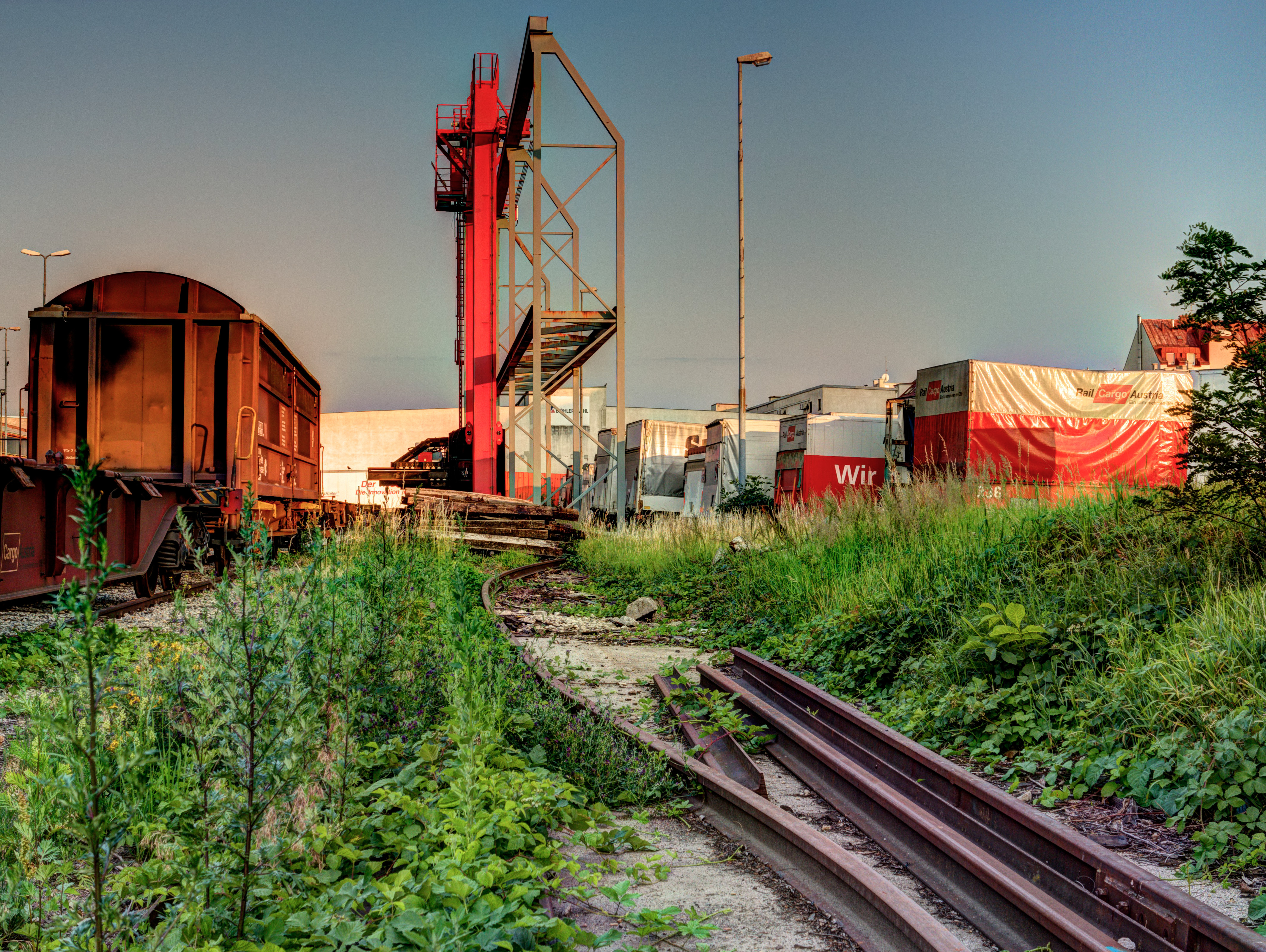 The Northwest Railway Station in Brigittenau, the XX. district of Vienna / Austria / EU. In the middle of the picture a covered railway wagon in the orange brown evening light. In the foreground some abandoned Rails. In the middle a red Container crane. Right park trucks. It was dismantled around 2015.